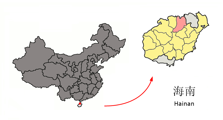 Location of Chengmai County (pink) and the subdivisions directly administered by the province (yellow) within Hainan province of China Map drawn in september 2007 using various sources, mainly : Hainan Counties map from